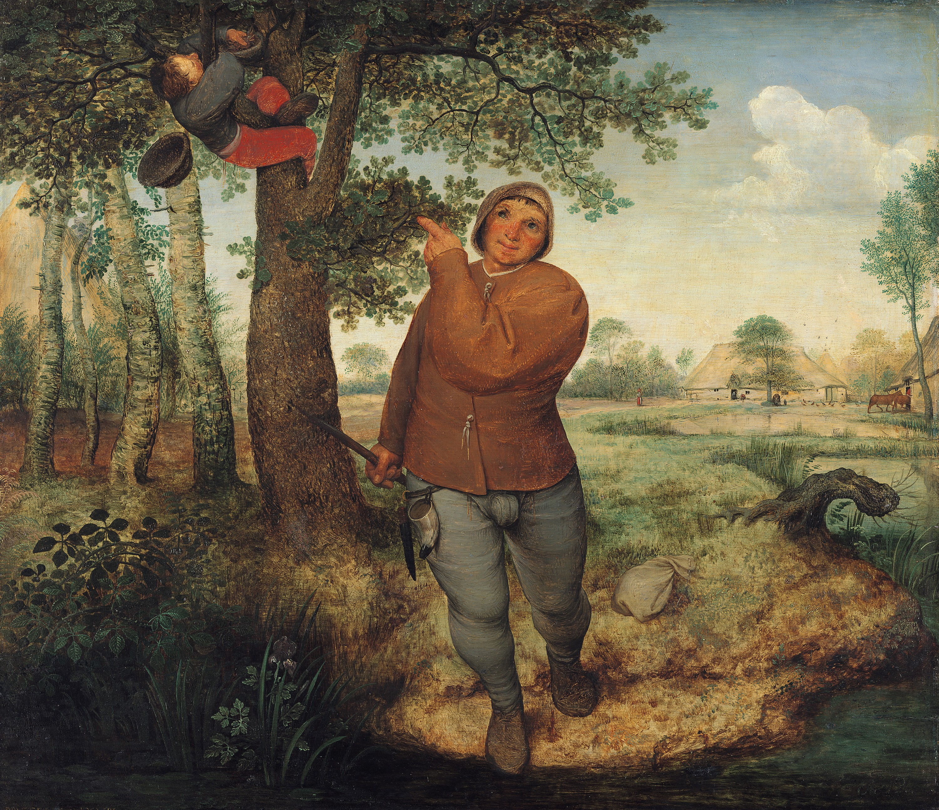 "The Peasant and the Birdnester," oil on panel, by the Netherlandish painter Pieter Bruegel the Elder. 23.23" x 26.77". Courtesy of the Kunsthistorisches Museum, Vienna, Austria.